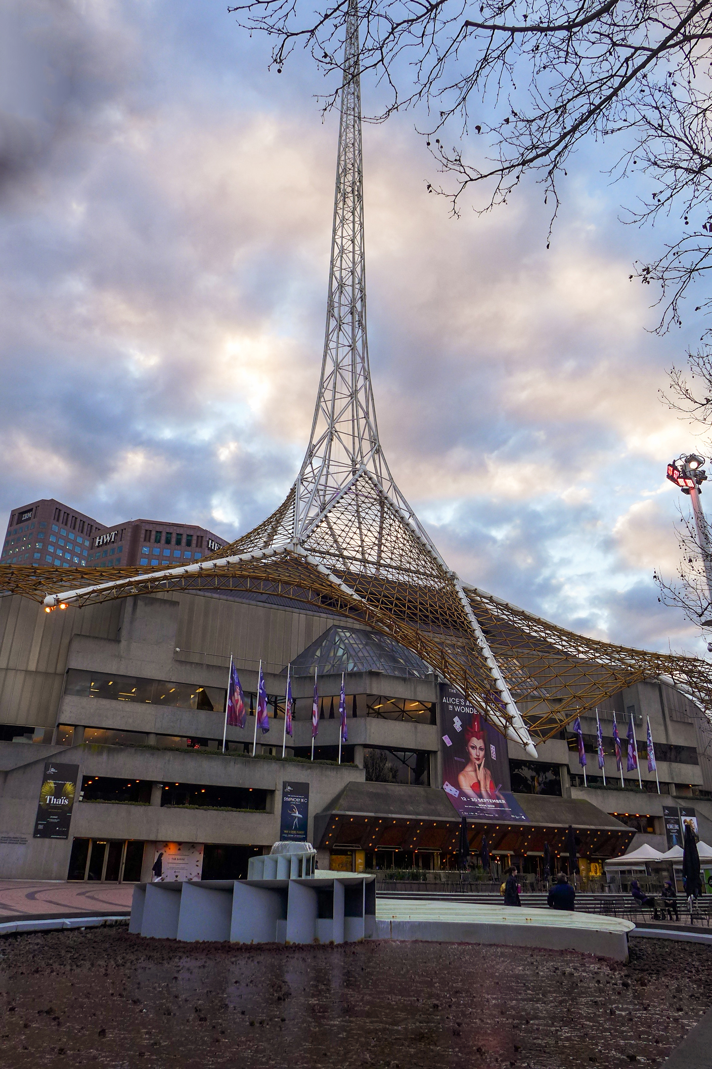 State Theatre Melbourne dusk view